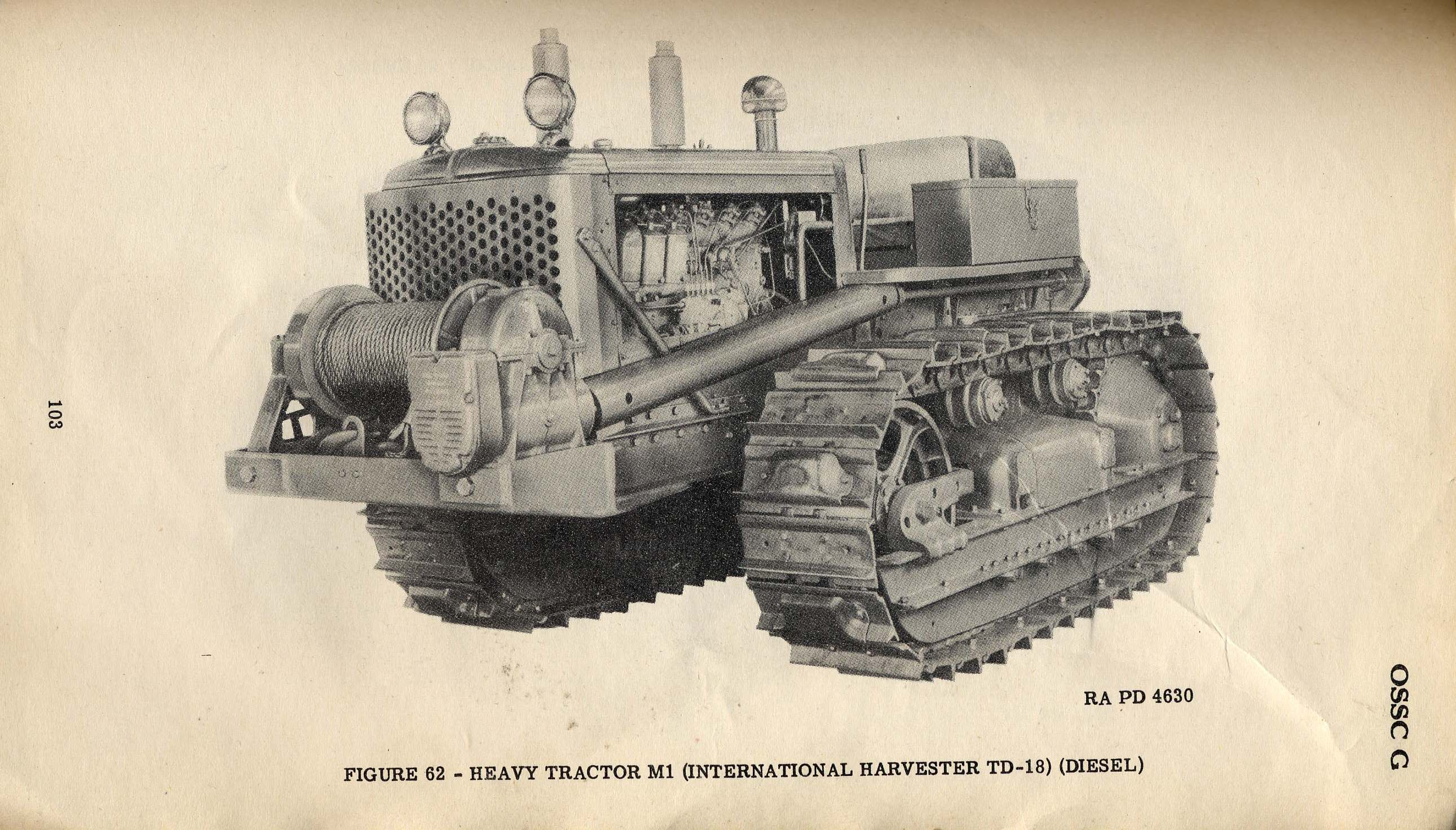 M1 heavy tractor International Harvester TD-18 diesel